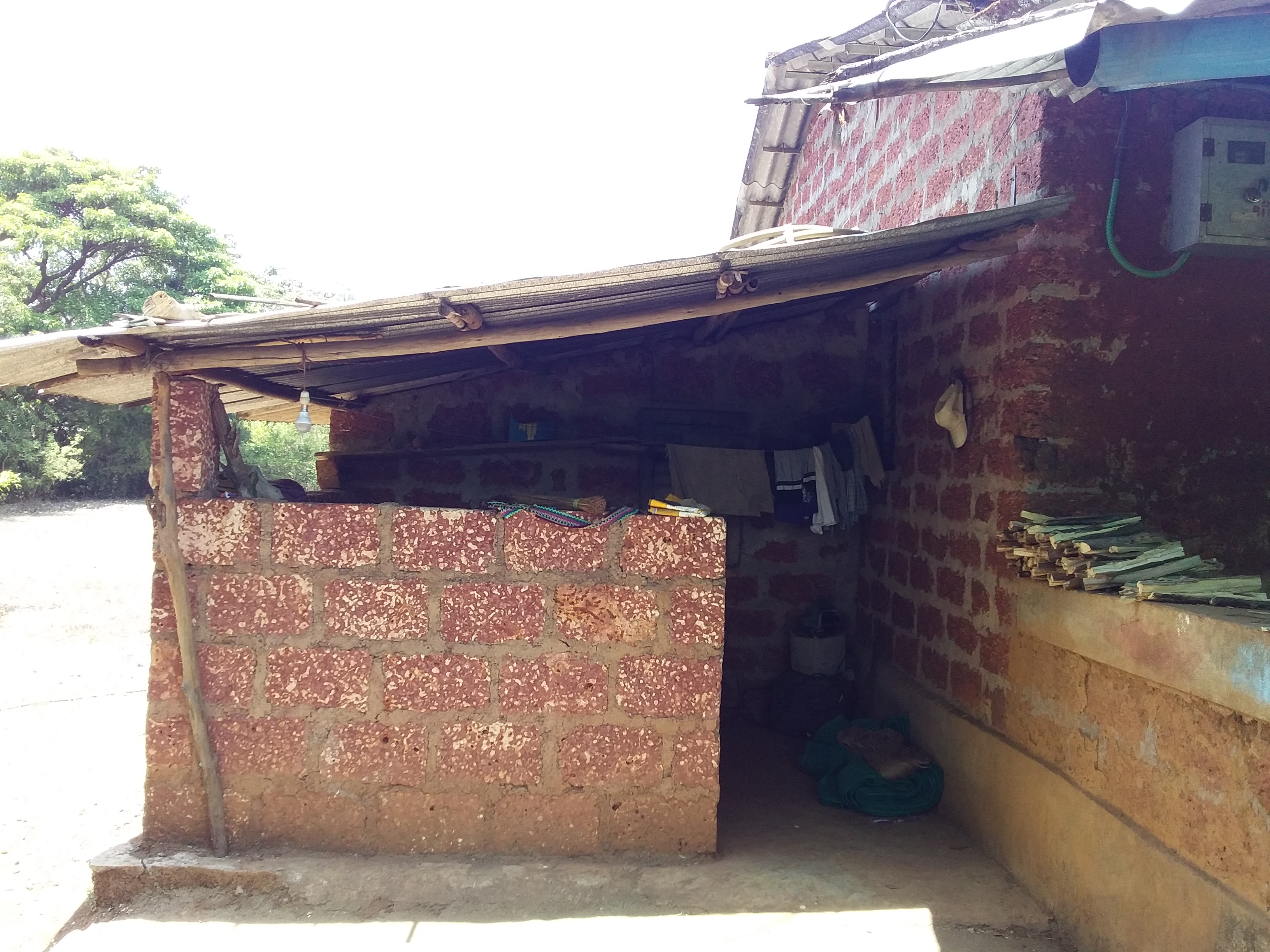 A house in India made from laterite stones